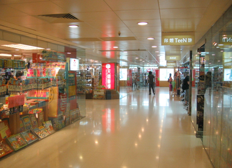 New Town Plaza Level 2 Cultural Corner